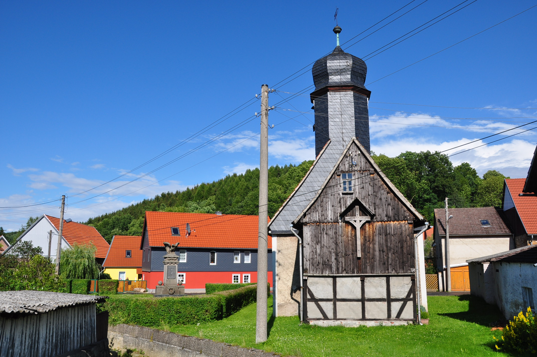 Village centre of Wolfsberg with church (municipality/Stadt Sangerhausen, Harz, Saxony-Anhalt, Germany).